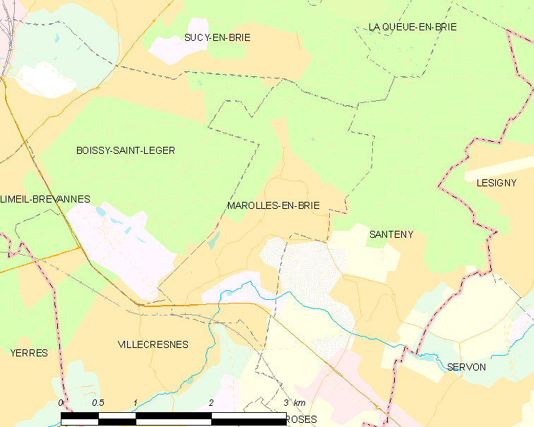 Map of French municipality Marolles-en-Brie